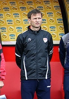 Krunoslav Rendulić, assistant coach of Foolad F.C.